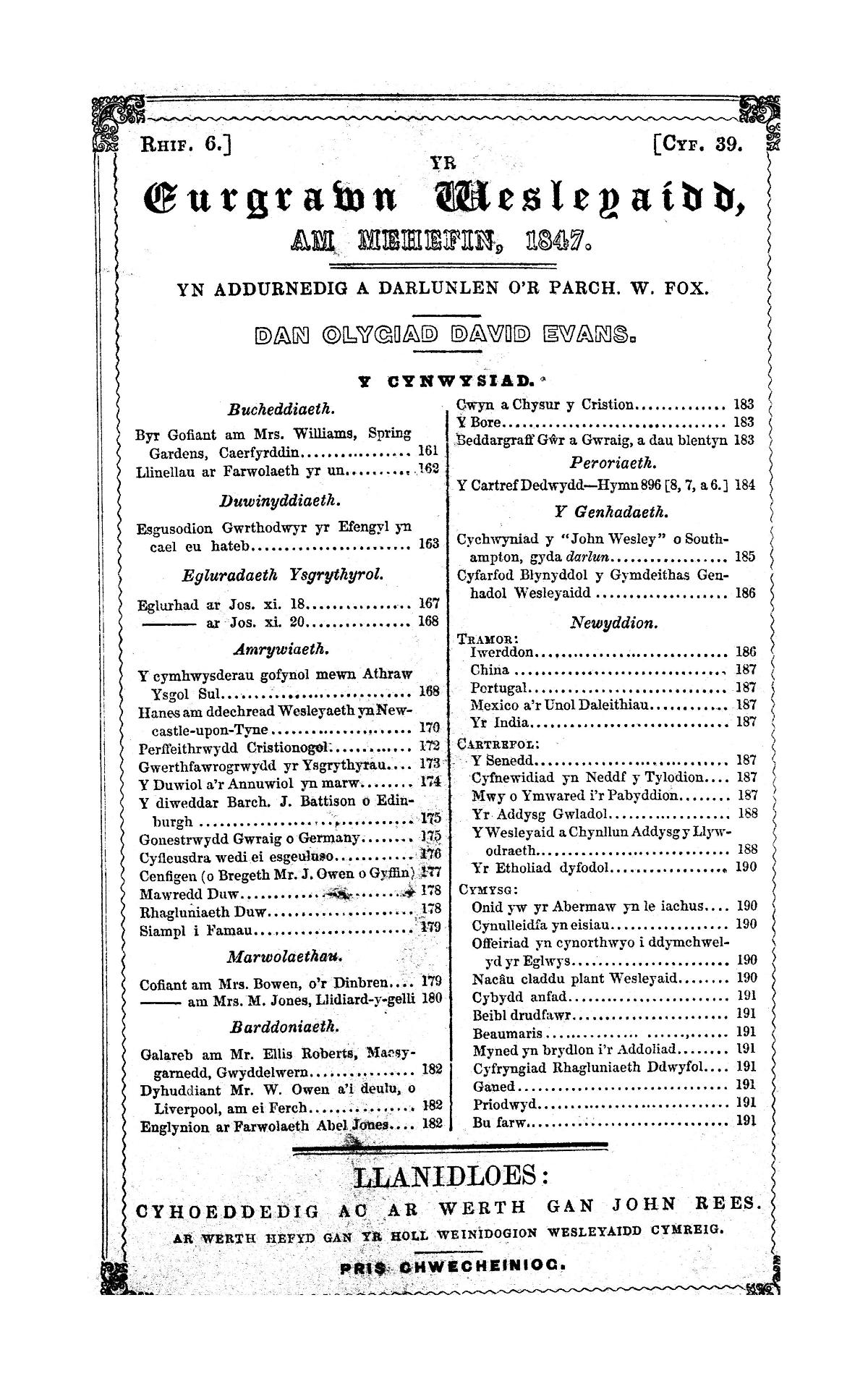 A monthly Welsh language religious periodical serving the Wesleyan Methodist denomination. The periodical's main contents were religious articles alongside articles on literature, philosophy, reviews, poetry, missionary news and biographies. Amongst the periodical's editors were John Bryan (1776-1856), Edward Jones (1782-1855) and Thomas Hughes (1854-1928). Associated titles: Y Drysorfa Wesleyaidd (1822); Yr Eurgrawn (1822, 1933).